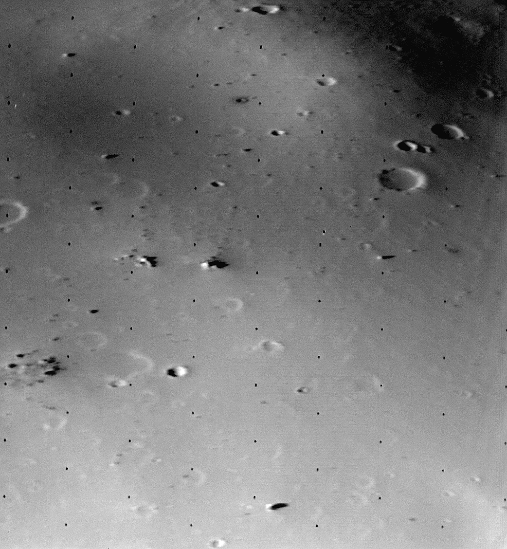 Original image caption: High-resolution view of Mars's moon Deimos from 30 km This is one of the highest-resolution images ever taken from an orbiting or flyby spacecraft. This Viking 2 orbiter image shows the surface of Mars's moon Deimos from a distance of 30 km. The image covers an area of 1.2 km by 1.5 km and features as small as 3 meters across can be seen. Note that many of the craters are covered over by a layer of regolith estimated to be about 50 meters thick. Large blocks, 10 to 30 meters across, are also visible. North is at 11:30.